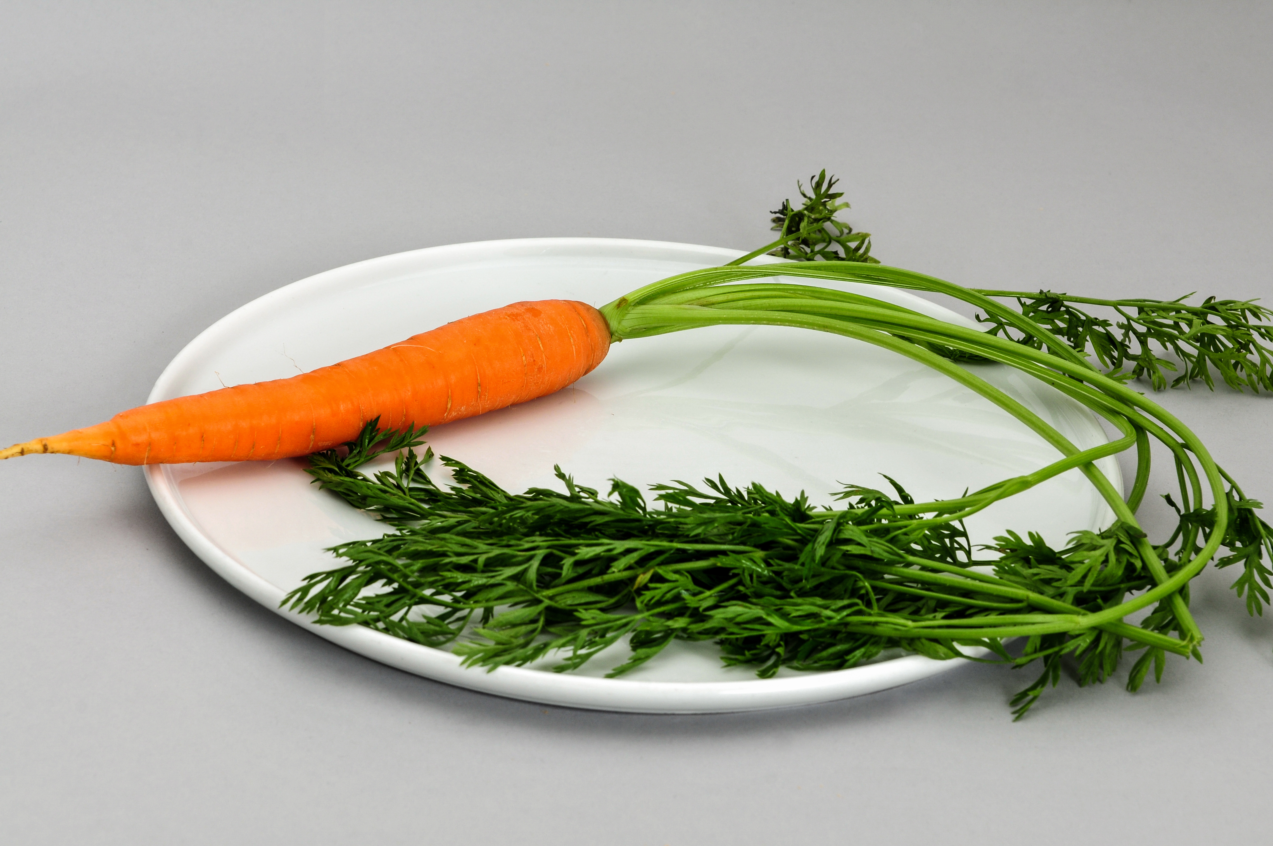 Carrot on a plate